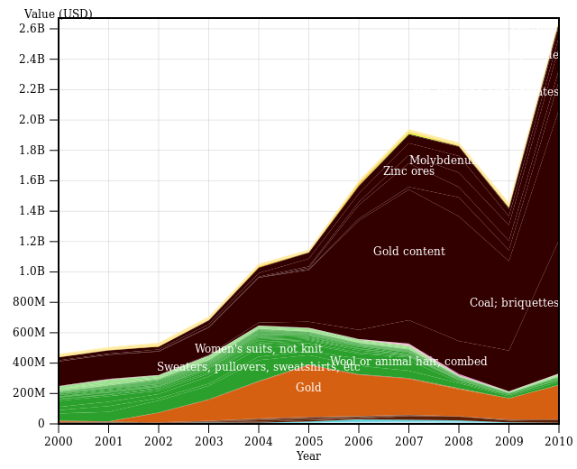 Exports of Mongolia, 2000-2010 from MIT Harvard Economic Complexity Observatory